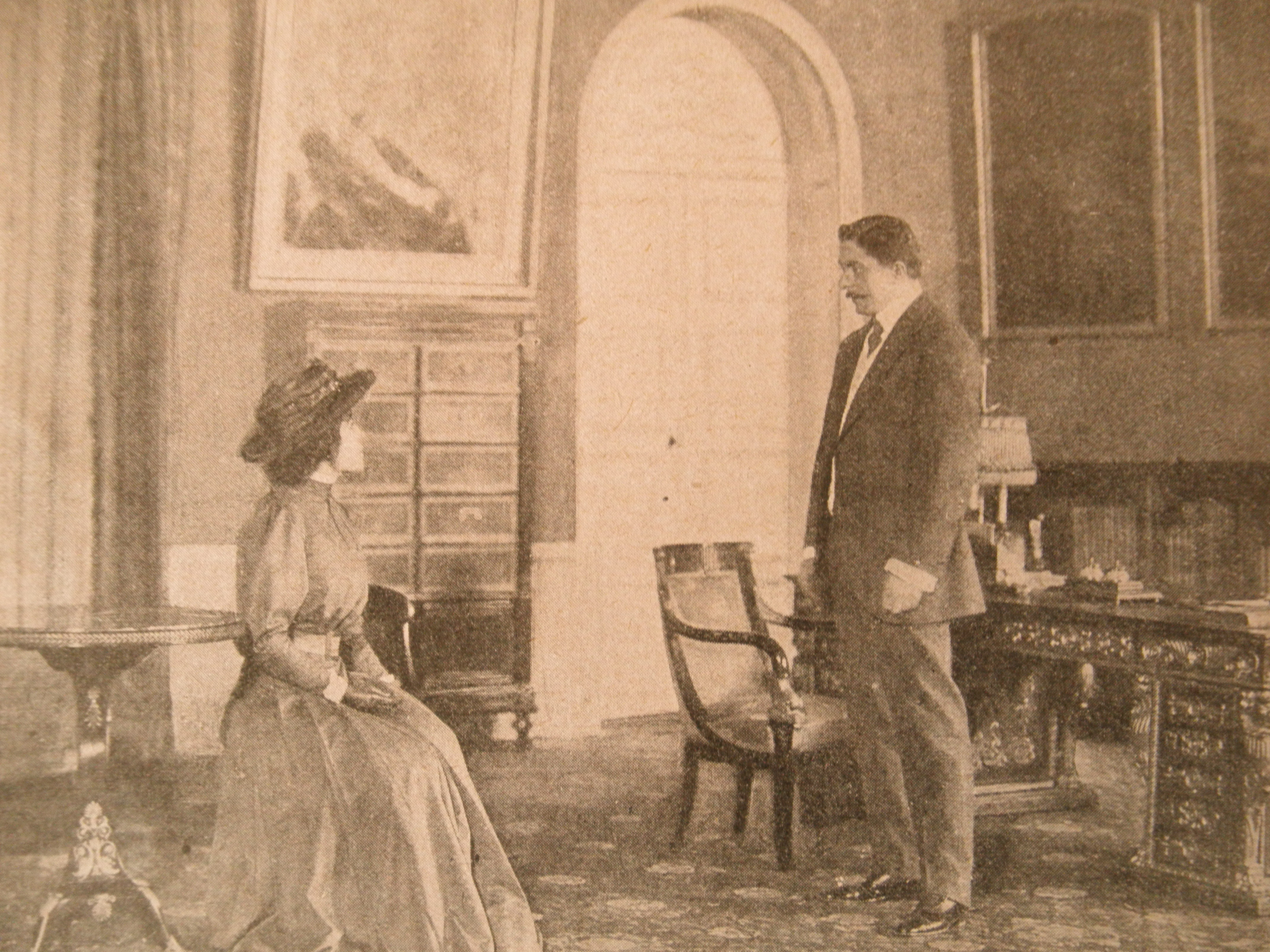 photo pièce theatre le divorce 1904